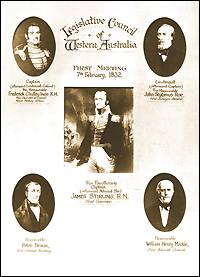 This is a memorial sheet of photographs of the members of the Western Australian Legislative Council for its first meeting on 7 February 1832.